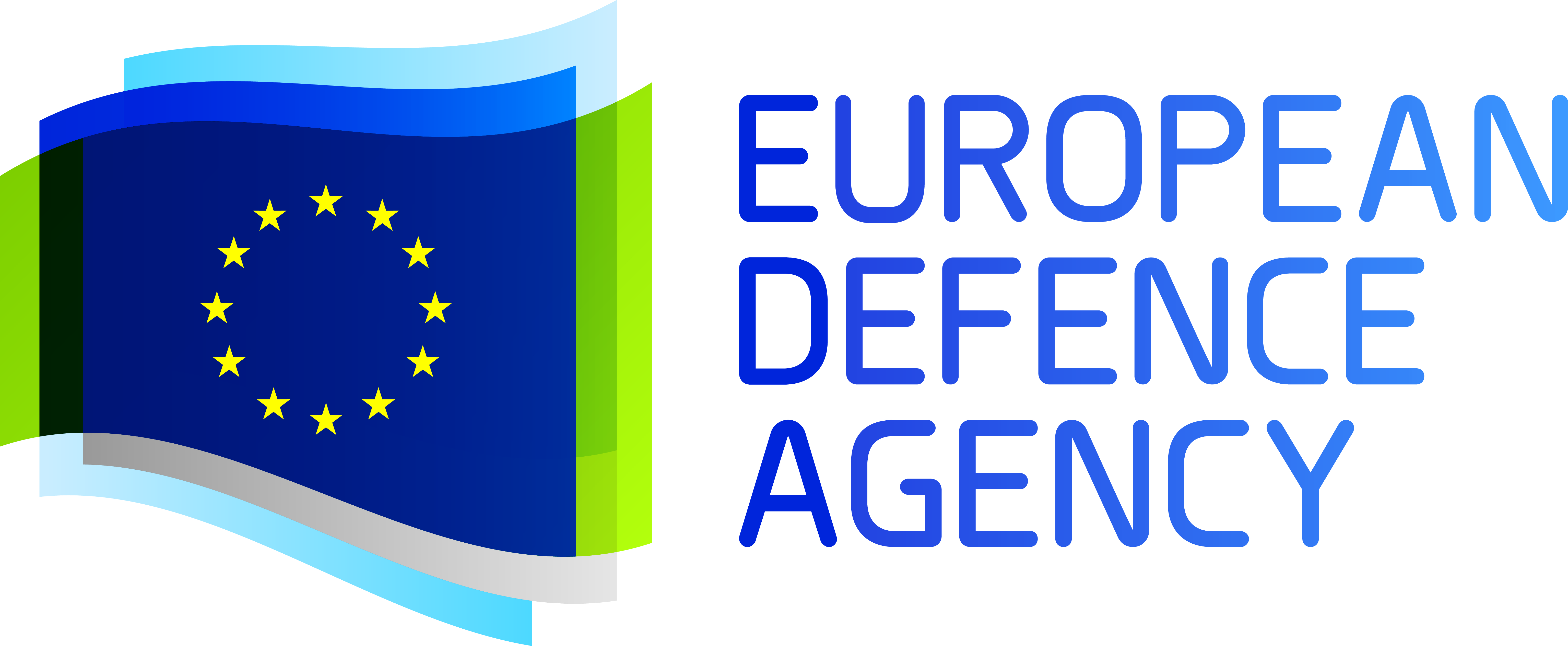 Official logo of the European Defence Agency